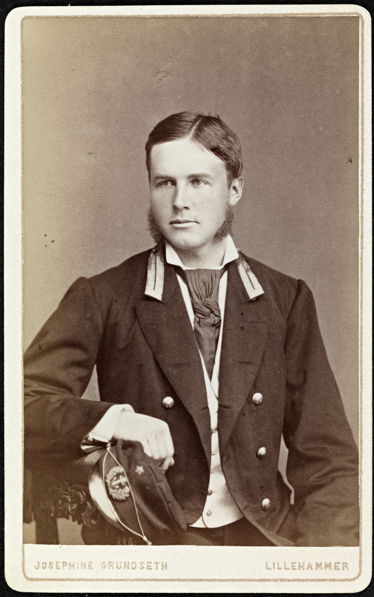 Tittel / Title: Portrett av Carl Sofus Lumholtz (1851-1922) Motiv / Motif: Visittkort. Lumholtz var oppdagelsesreisende og etnograf. Dato / Date: ukjent / unknown Fotograf / Photographer: Josephine Grundseth (Lillehammer) Sted / Place: Oppland, Lillehammer Eier / Owner Institution: Nasjonalbiblioteket / National Library of Norway Lenke / Link: Bildesignatur / Image Number: blds_05663